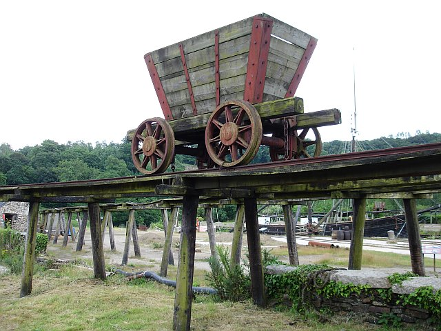 Elevated railway at Morwellham Quay. For 1,000 years Morwellham was a centre for shipping silver, tin, copper and other minerals.